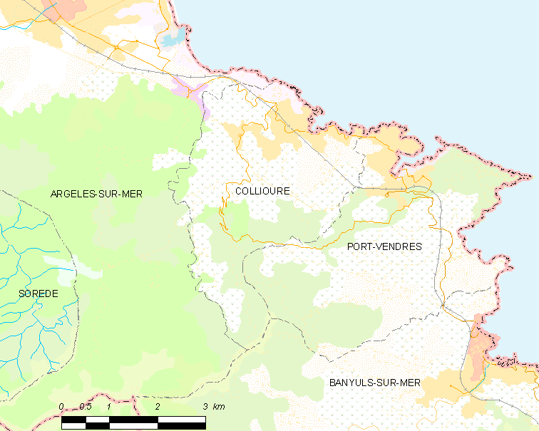 Map of French municipality